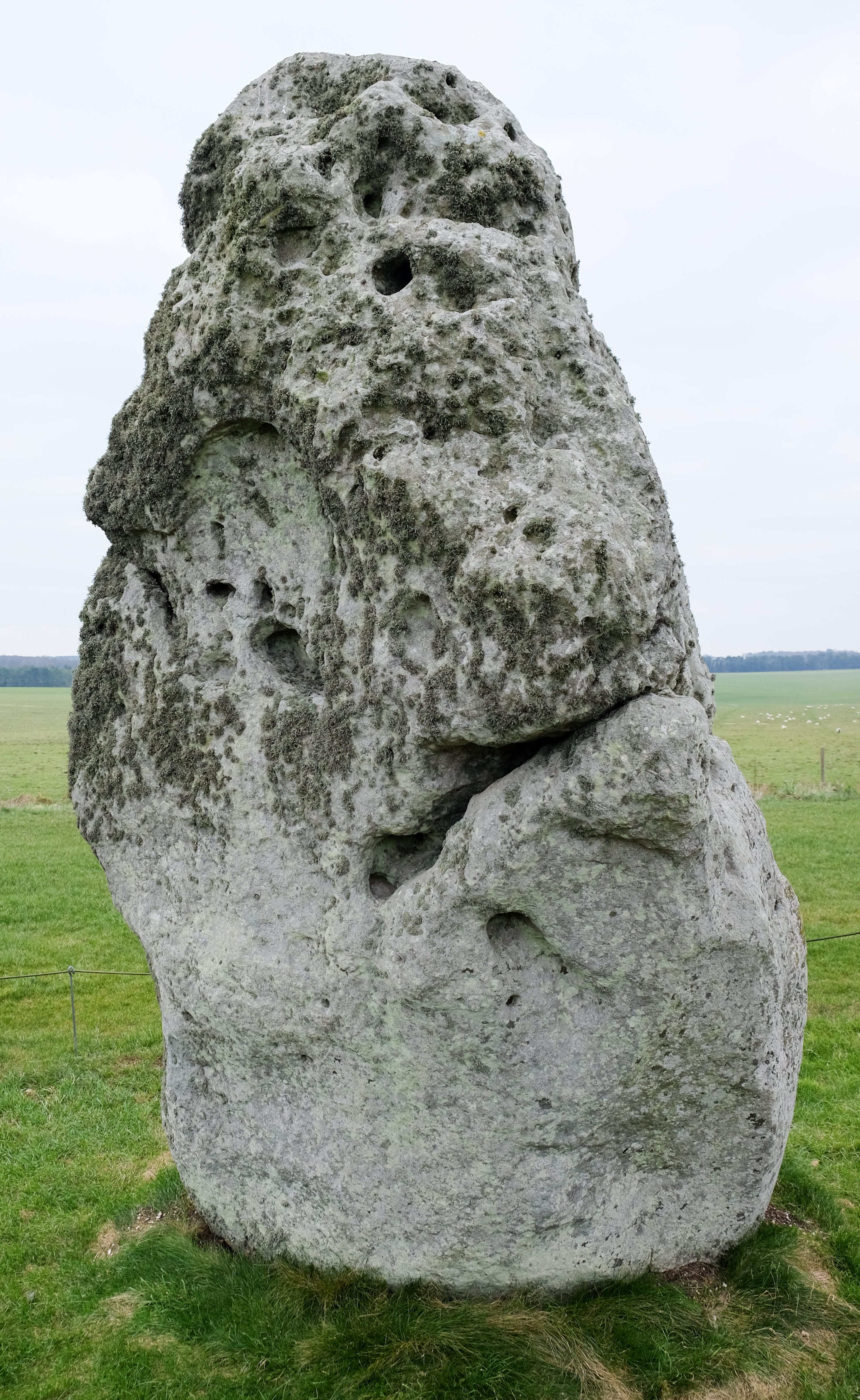 Stonehenge Heel Stone. This place is a UNESCO World Heritage Site, listed as Stonehenge, Avebury and Associated Sites.